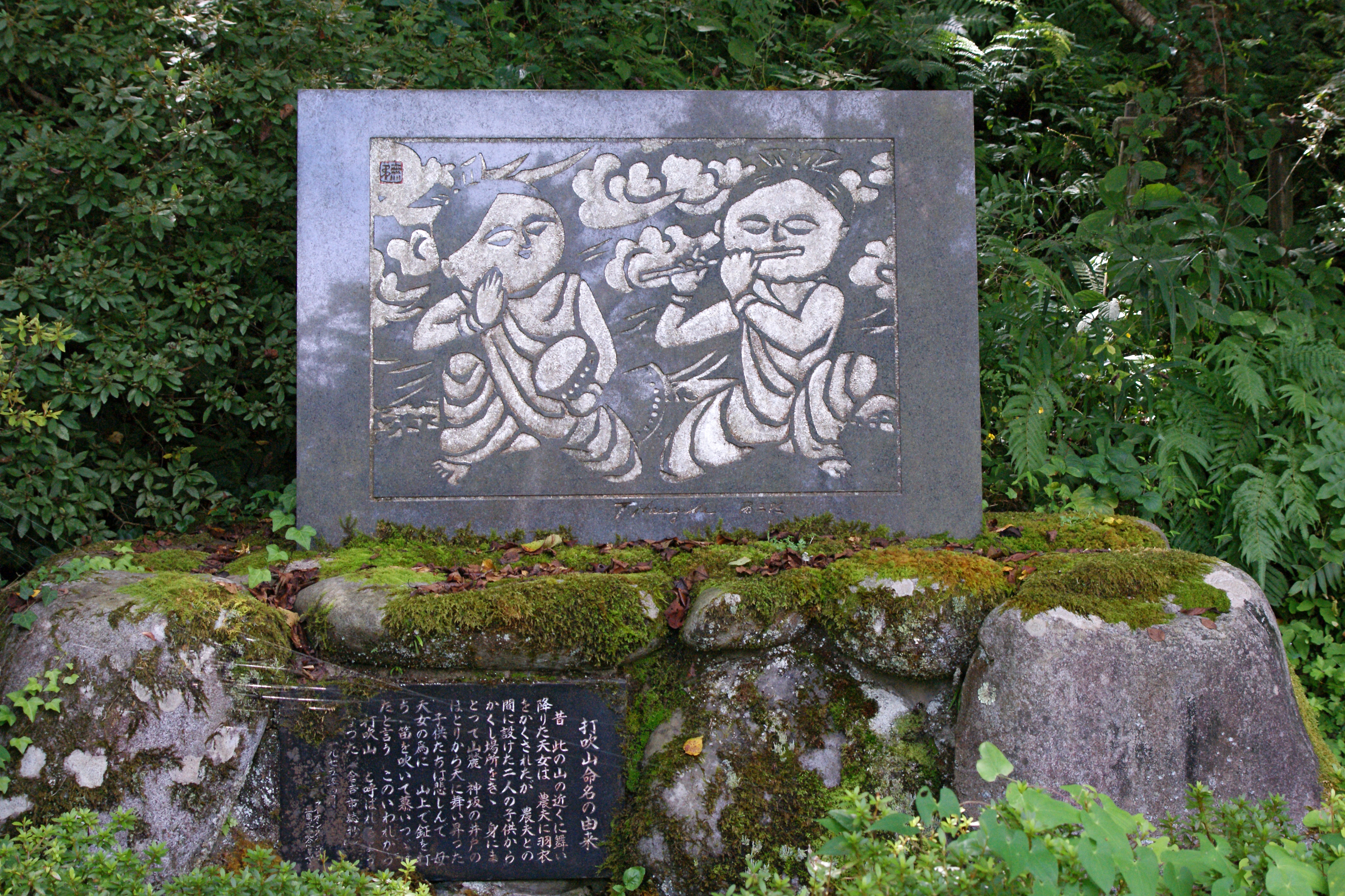 Utsubuki Park in Kurayoshi, Tottori prefecture, Japan